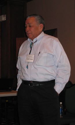 Joseph "J.T." Goombi (Kiowa), former Chairman of the Kiowa Tribe of Oklahoma, first Vice-President of the National Congress of the American Indians, powwow dancer, educator, and Native American rights advocate